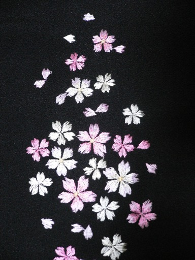 Haneri is a substitute collar to sew on the Juban which is underwear for the kimono.